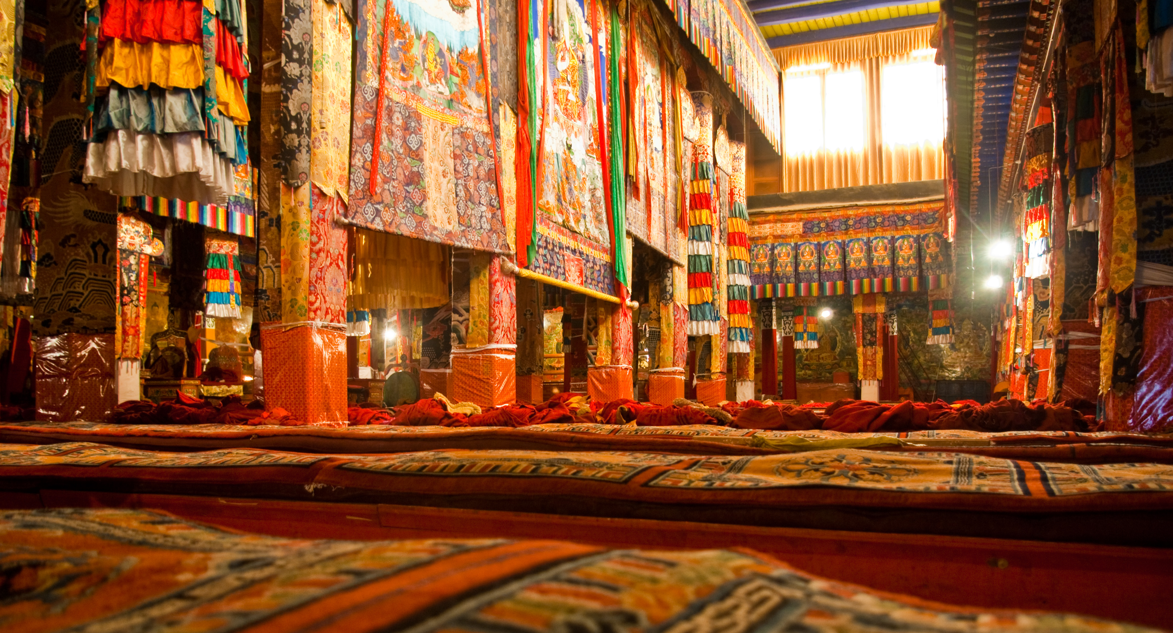 A prayer room of the Ganden monastery